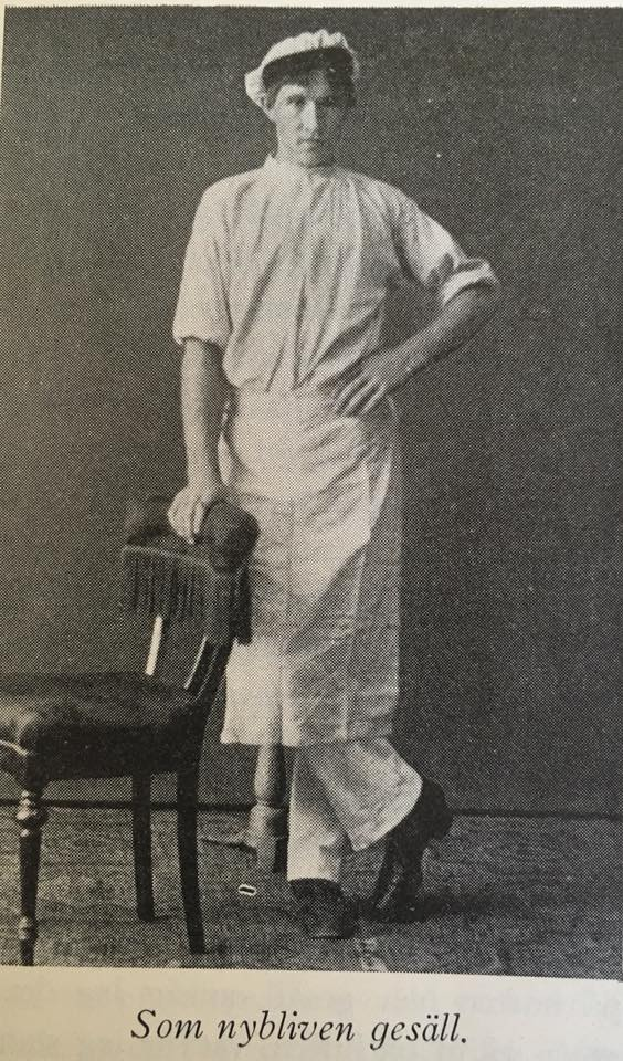 Johan Grönvall as a baker journeyman in Ystad 1883 (photographer unknown, from En bageriarbetares minnen)